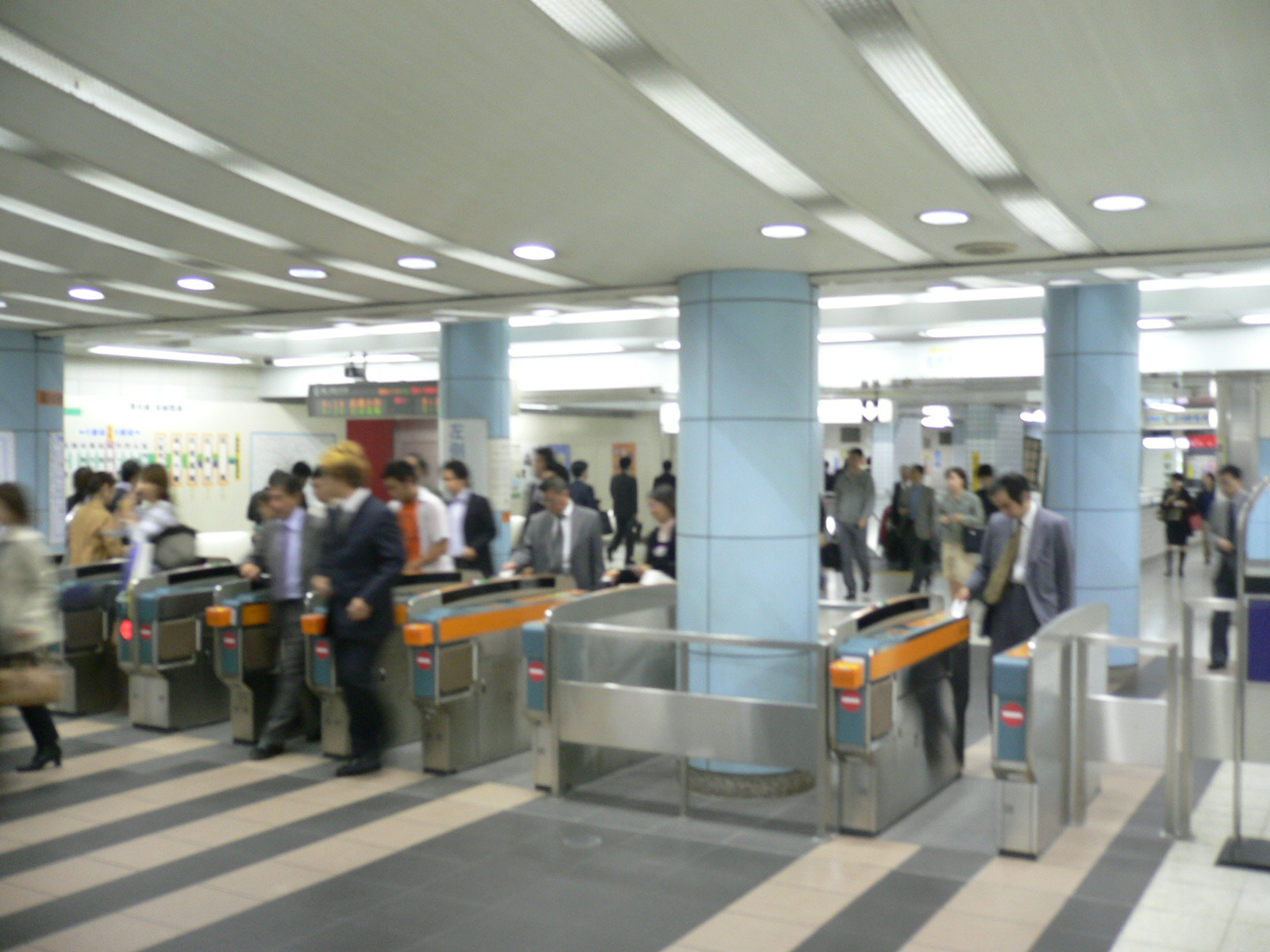 Iidabashi Station (飯田橋駅), Shinjuku W, Tokyo M.